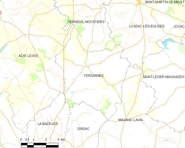 Map of French municipality Tersannes